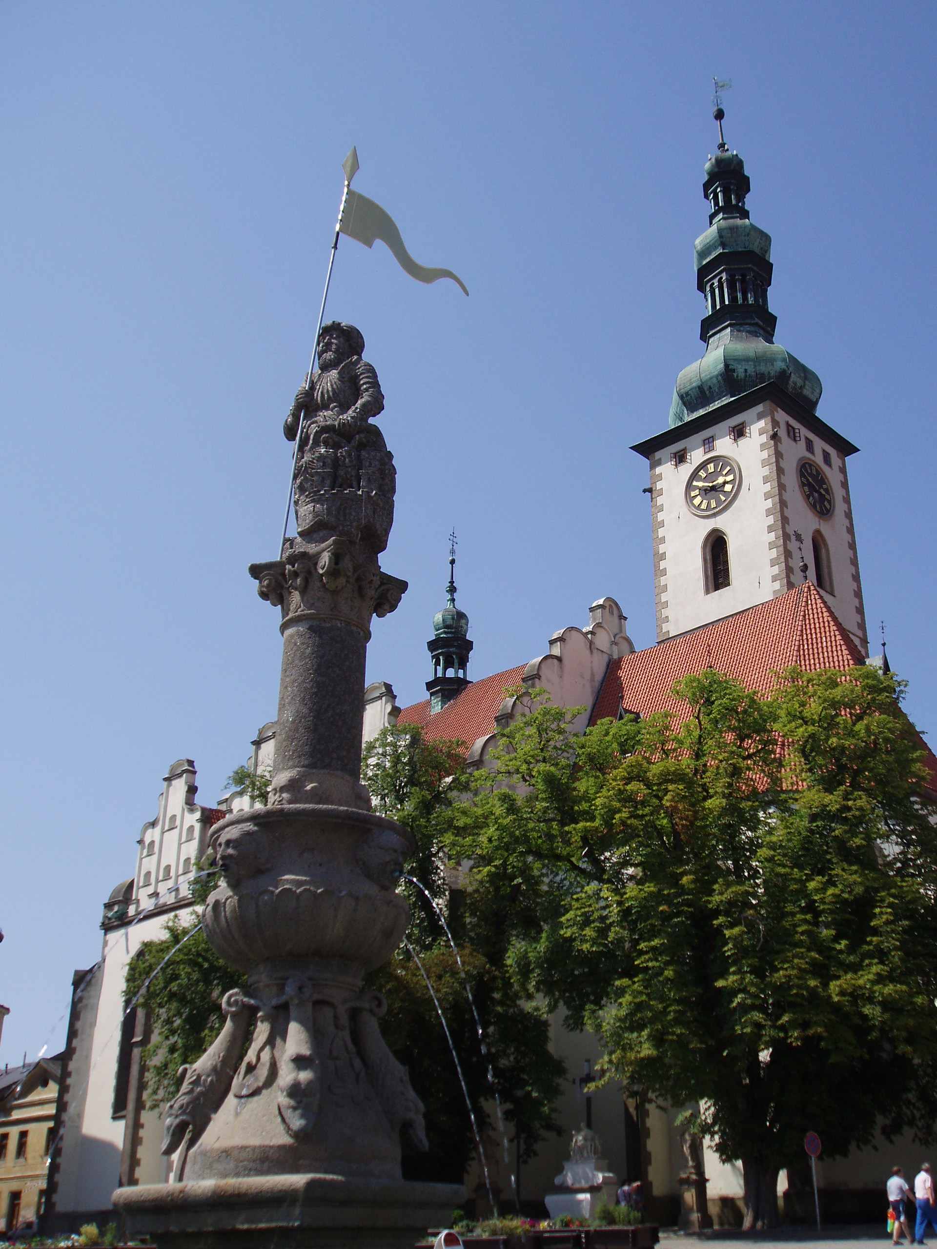 Statue of Roland and Church at Žižka Square in Tábor, Czech Republic, July 2005